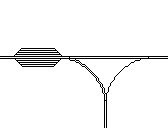 schema of a junction line avoiding the need to change direction at the station on the left